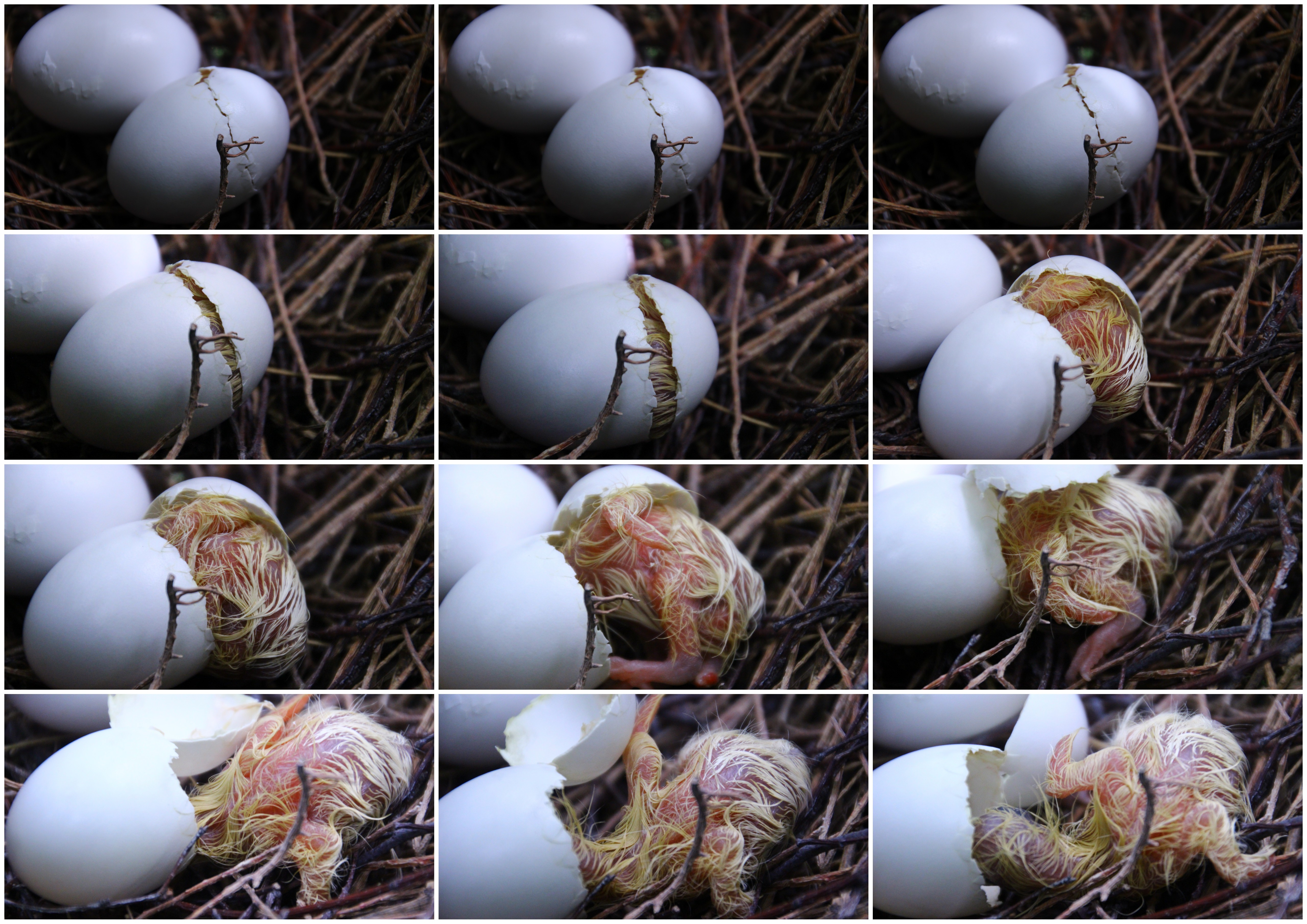 Timelapse pictures of a Common Wood Pigeon (Columba Palumbus) hatching.